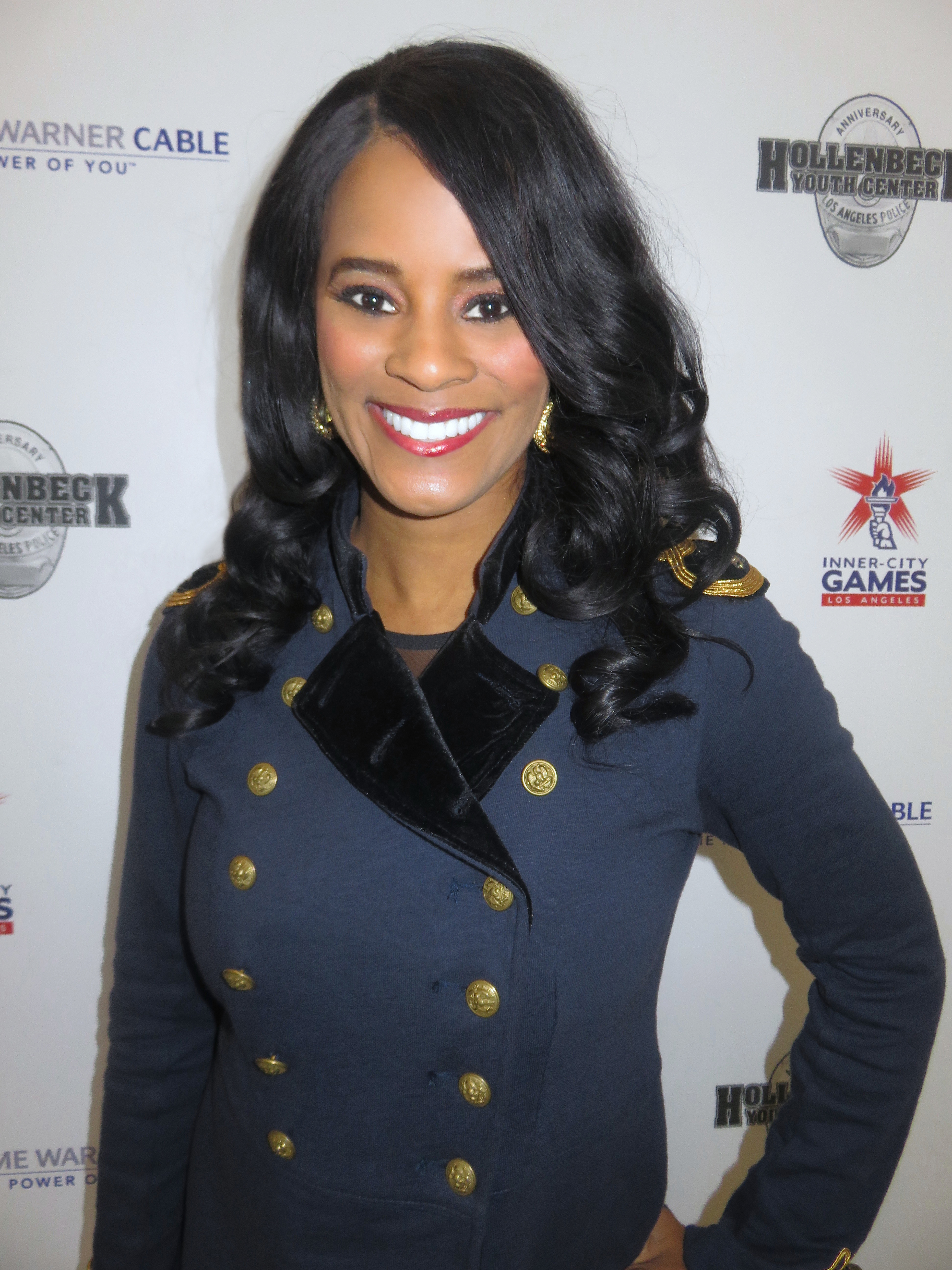 Germany Kent at the 2016 Miracle on 1st Street.